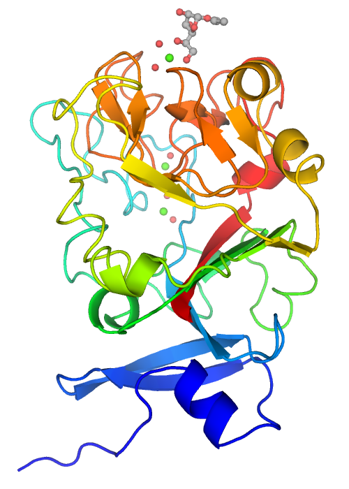 Monomeric structure of human intelectin with bound allyl-beta-D-galactofuranose. The protein is colored using a blue-red gradient from the N- to the C- terminus. Calcium ions are shown as green spheres and the coordinated water molecules are shown as red spheres.